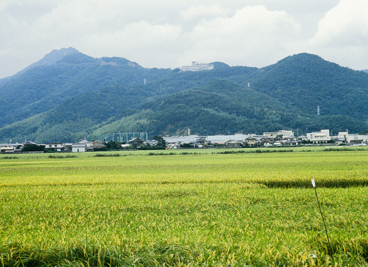 Mount Tsunomine (Tsunominesan) seen from the east.